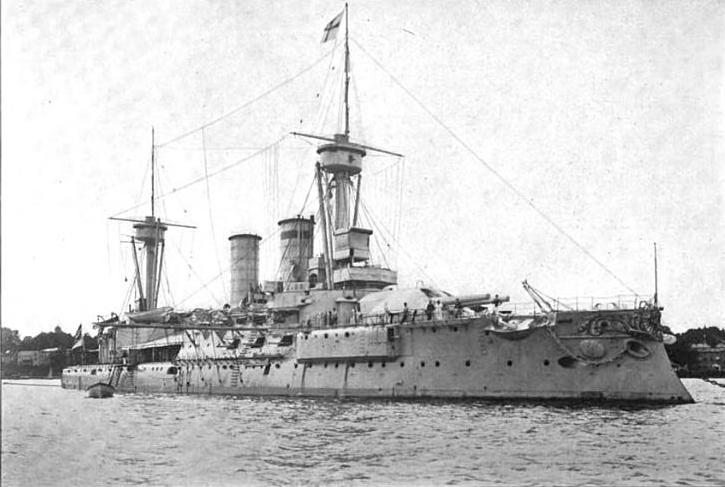 German pre-dreadnought battleship Kurfürst Friedrich Wilhelm sometime before 1903